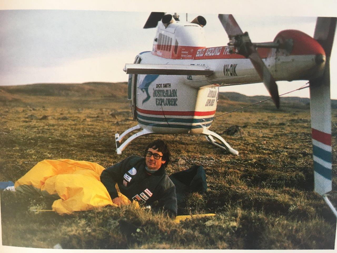 Dick Smith camps on Baffin Is. north of Hudson Strait having forced down during 1st solo helicopter circumnavigation, 1982